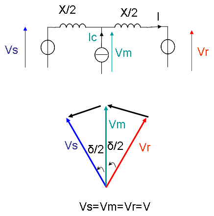 FACTS for shunt compensation- vector diagram